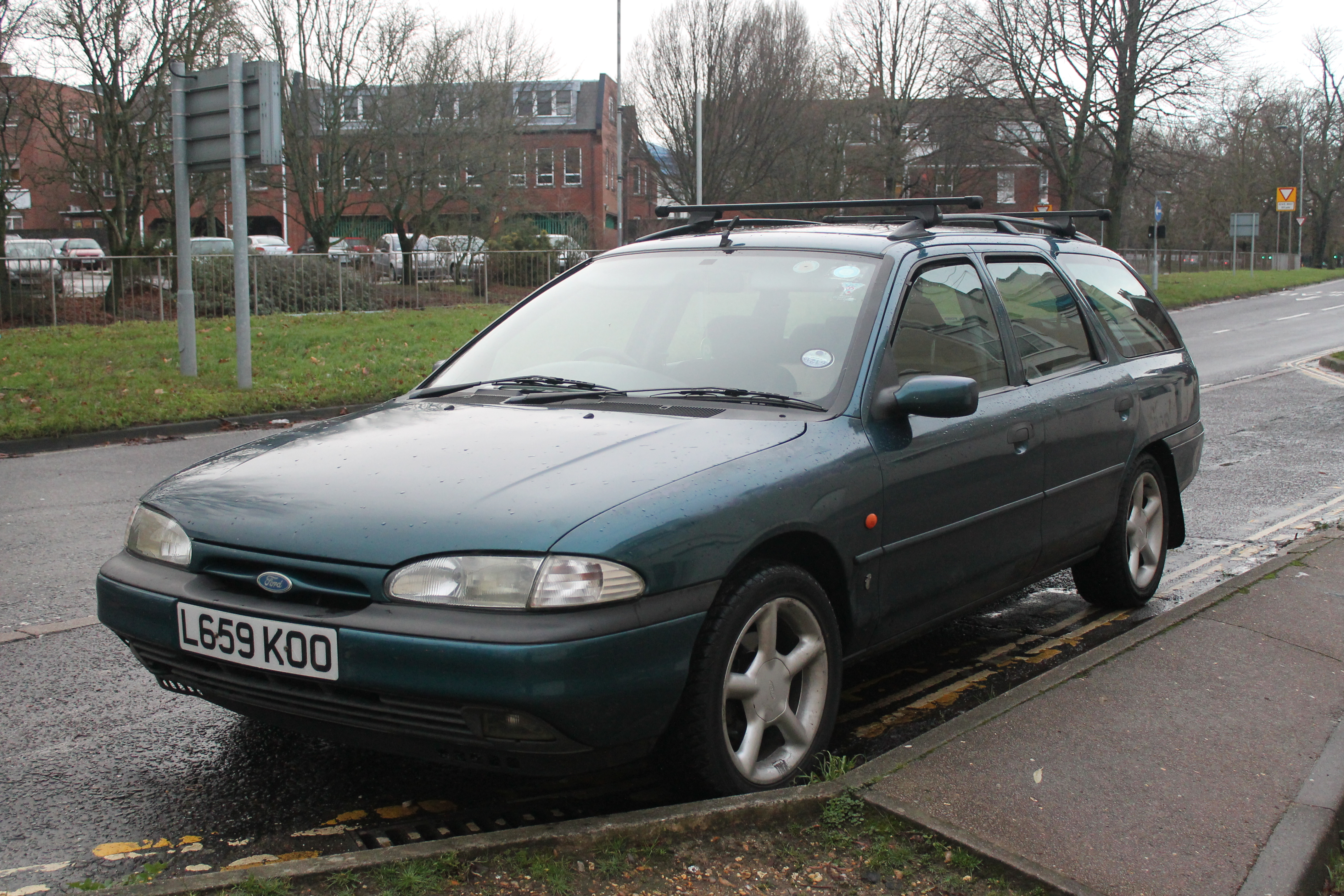 This one's registered on the first day of L plates, and was a nice looking Mark 1 Mondeo Ghia- much tidier than most and even retains the original front number plate. I don't seem to find too many Mk1 Ghias around in my area. HML tells me there are now under a hundred 1993 Ghias on the roads. I've got a tidy K reg upload to come... Am I right in thinking the alloys on this belong to the next generation of Mondeos? The vehicle details for L659 KOO are: Date of Liability 01 07 2014 Date of First Registration 01 08 1993 Year of Manufacture 1993 Cylinder Capacity (cc) 1988cc CO₂ Emissions Not Available Fuel Type PETROL Export Marker N Vehicle Status Licence Not Due Vehicle Colour BLUE Vehicle Type Approval Not Available